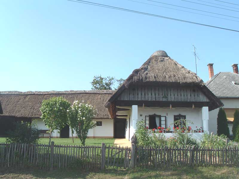 The Regional Ethnographic Museum in Zalalövő, Hungary